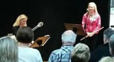 A concert of Similia photographed in Montreal, Quebec, Canada at the Île Bizard library.